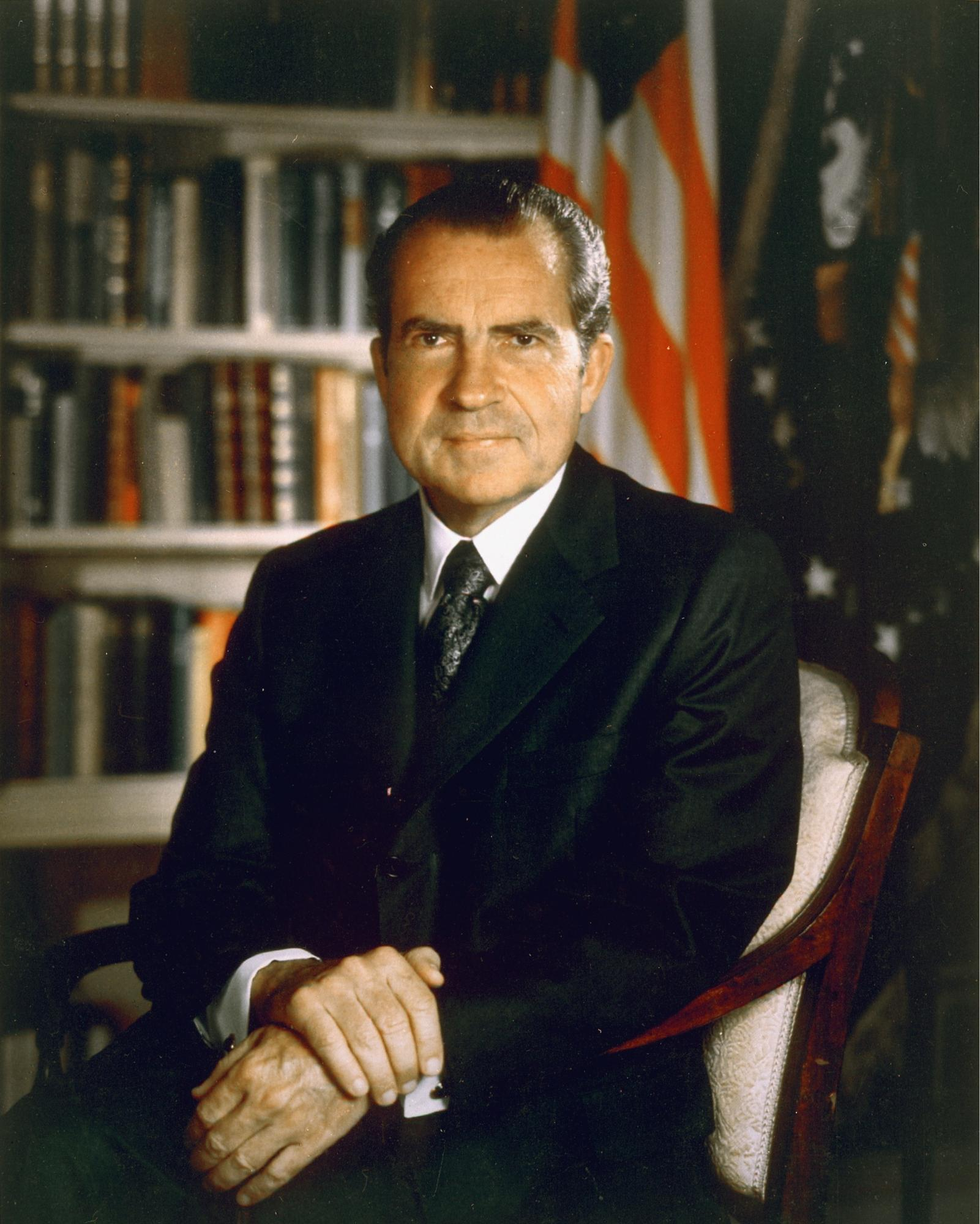 Richard Nixon